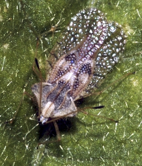 Eggplant lace bug, Gargaphia solani. Found alone on an oak leaf in Brandywine, Prince George's County, Maryland, USA on September 15, 2008. Size: very small.